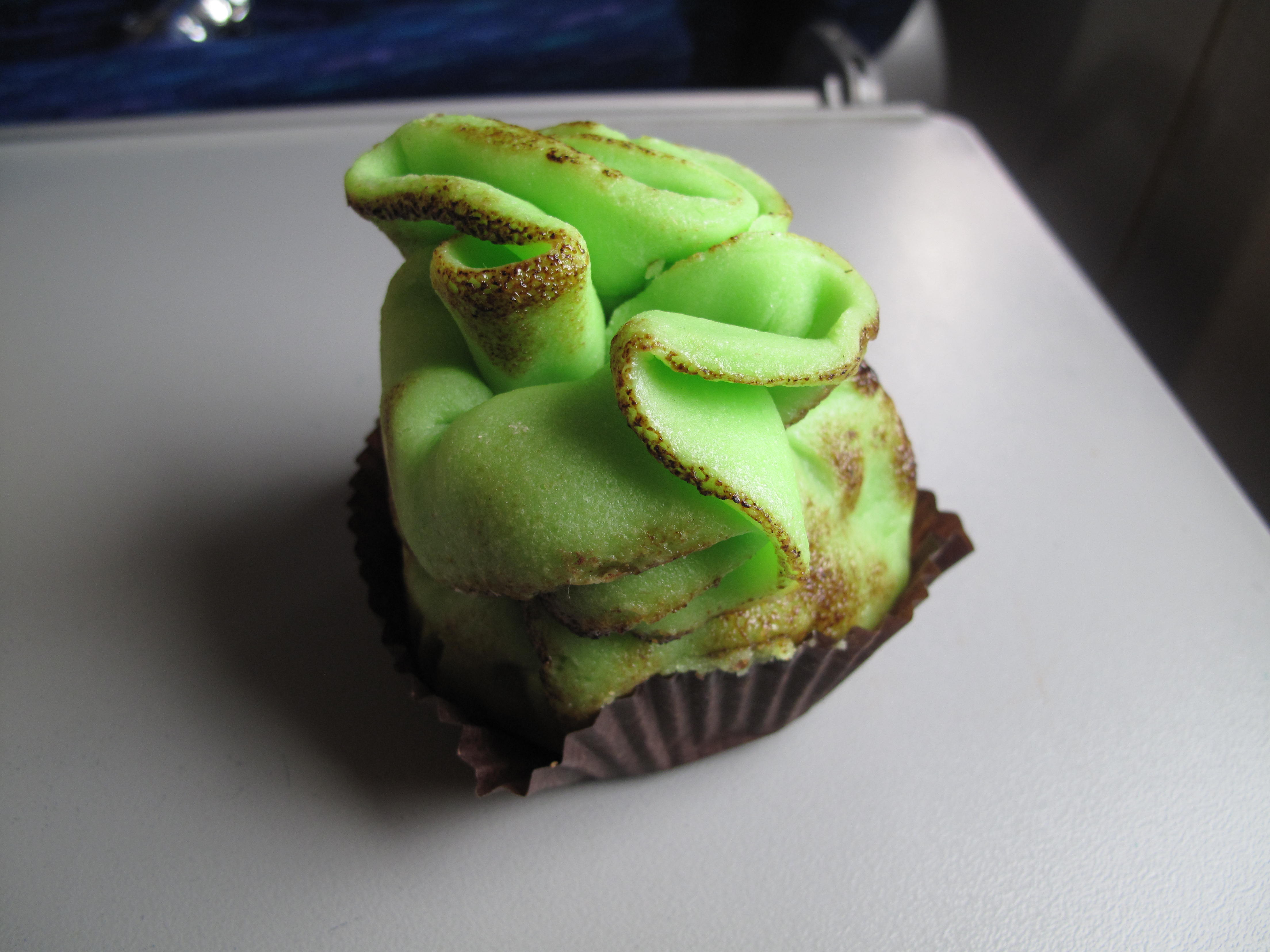 A french pastry, the "Figue" (common fig)